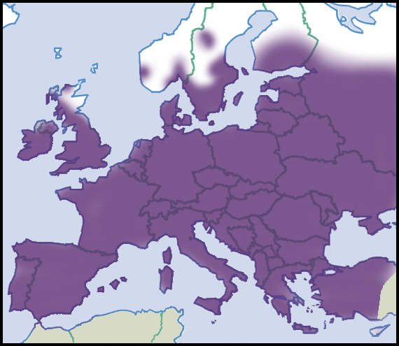 Vertigo antivertigo (Draparnaud, 1801). Distribution in Europe, scientific state of knowledge of 2012. Source description in English. Light colour indicated rare occurrences or regions where the species could eventually be expected to occur. Dark colour indicated relatively reliable occurrences, as well as regions where the species was expected to occur, and where the species was not known to be extremely rare. Dark colour indications were not necessarily based on published records. Species summary in AnimalBase